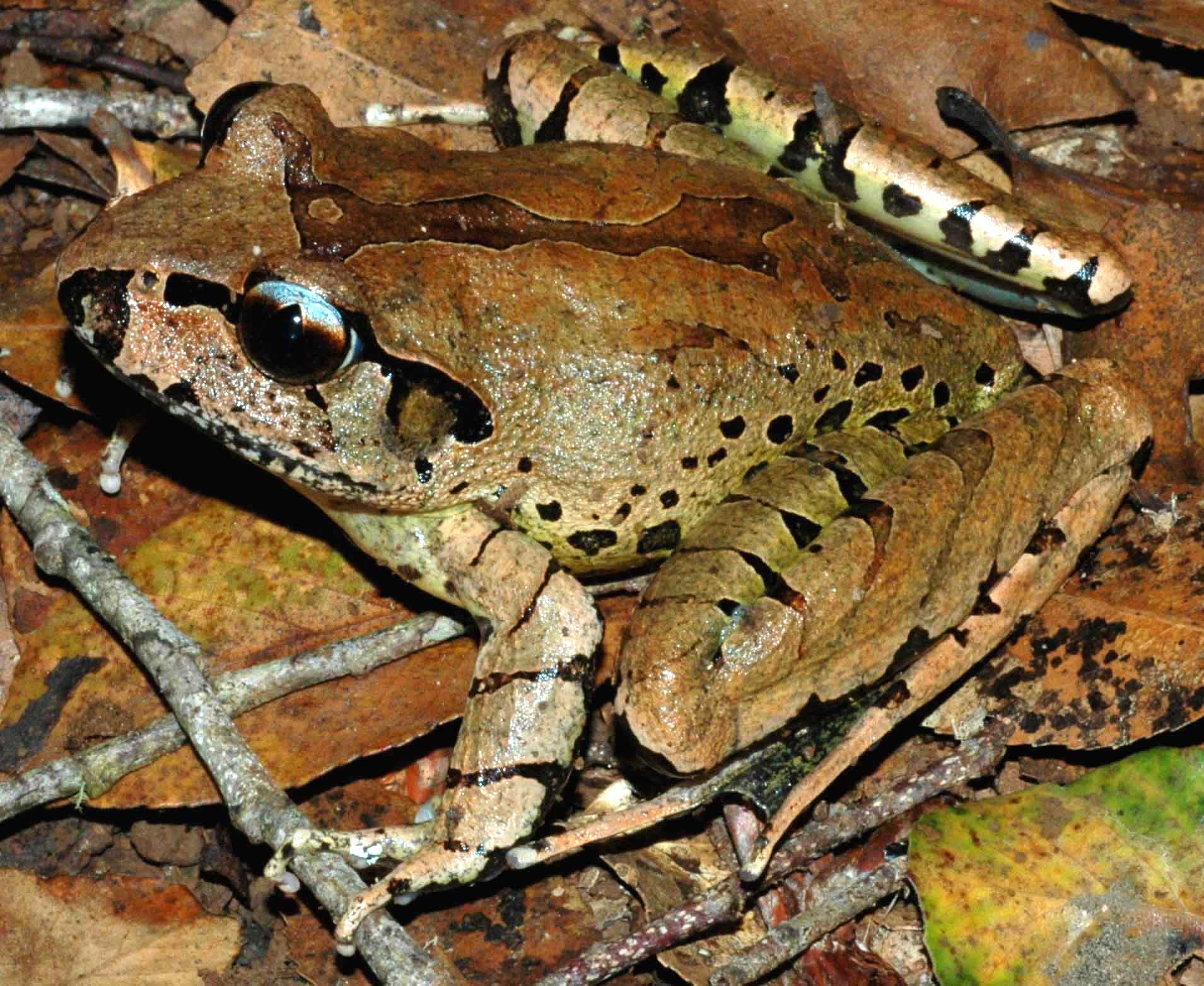 Fleay's Barred Frog (Mixophyes fleayi), Border Ranges National Park, NSW Australia.